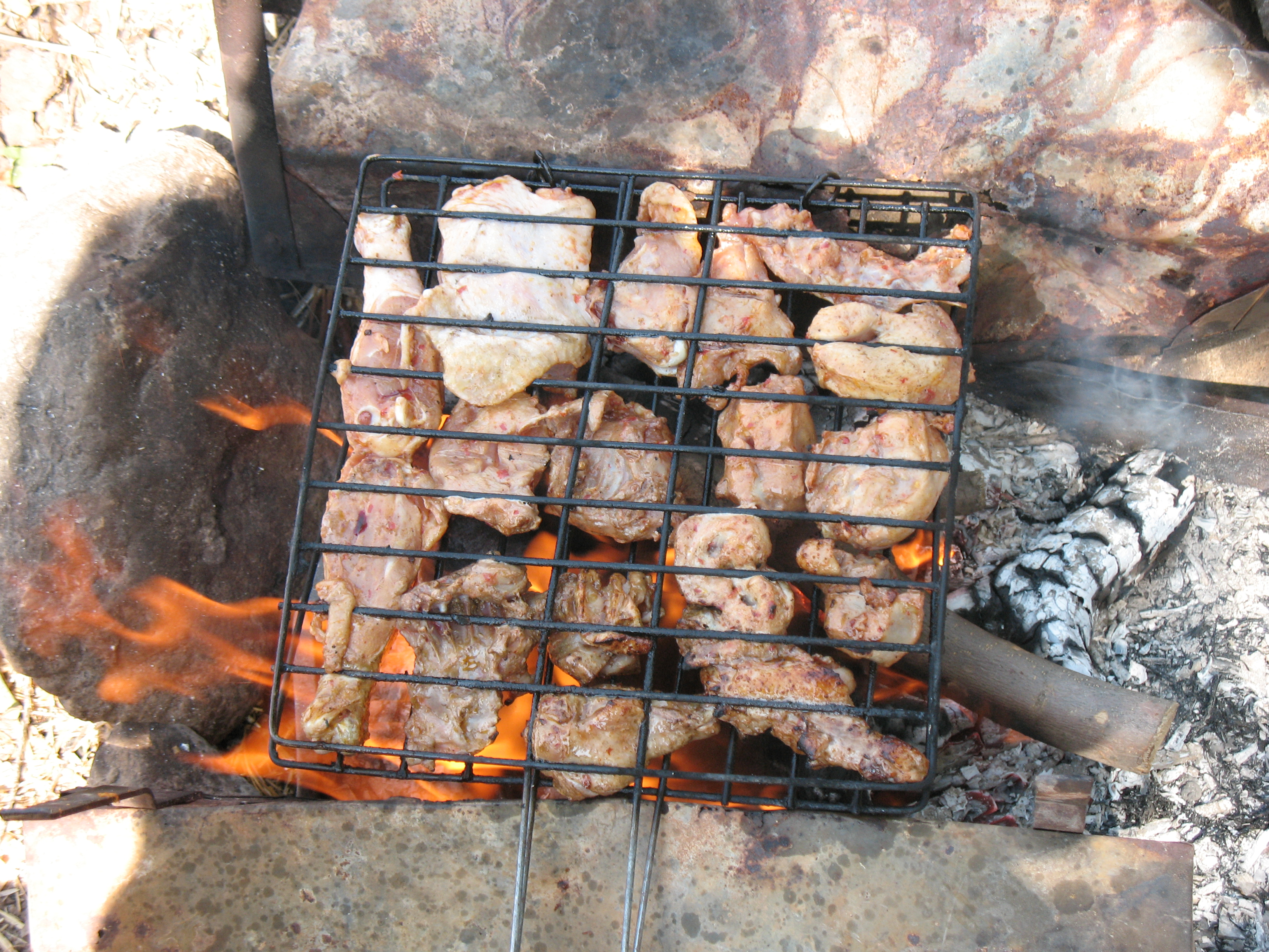 Grilling chicken Kurdî: Bibjartina mirîşkan